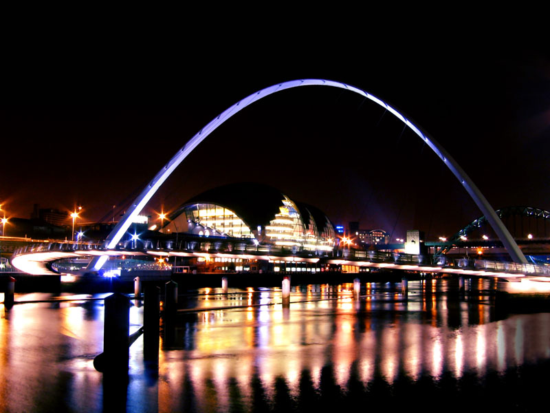 Taken by Anthony Burns in Jan 2006.